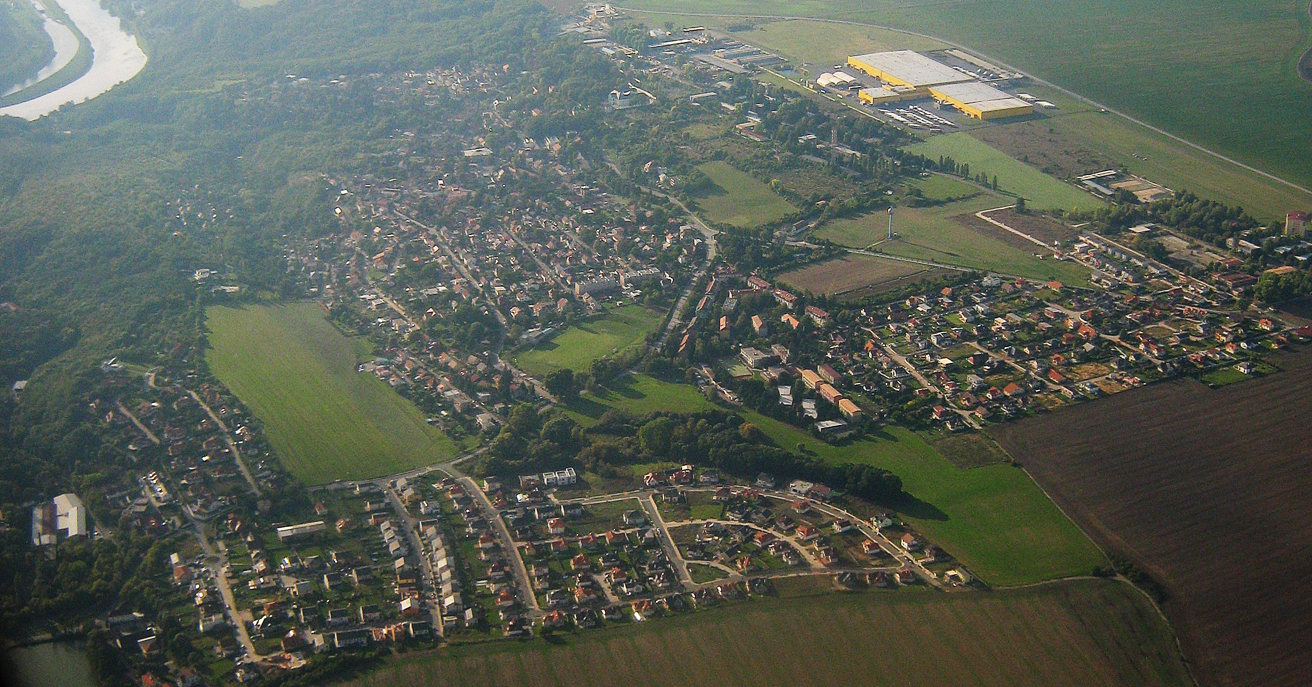 Aerial photography of a town in Central Bohemia